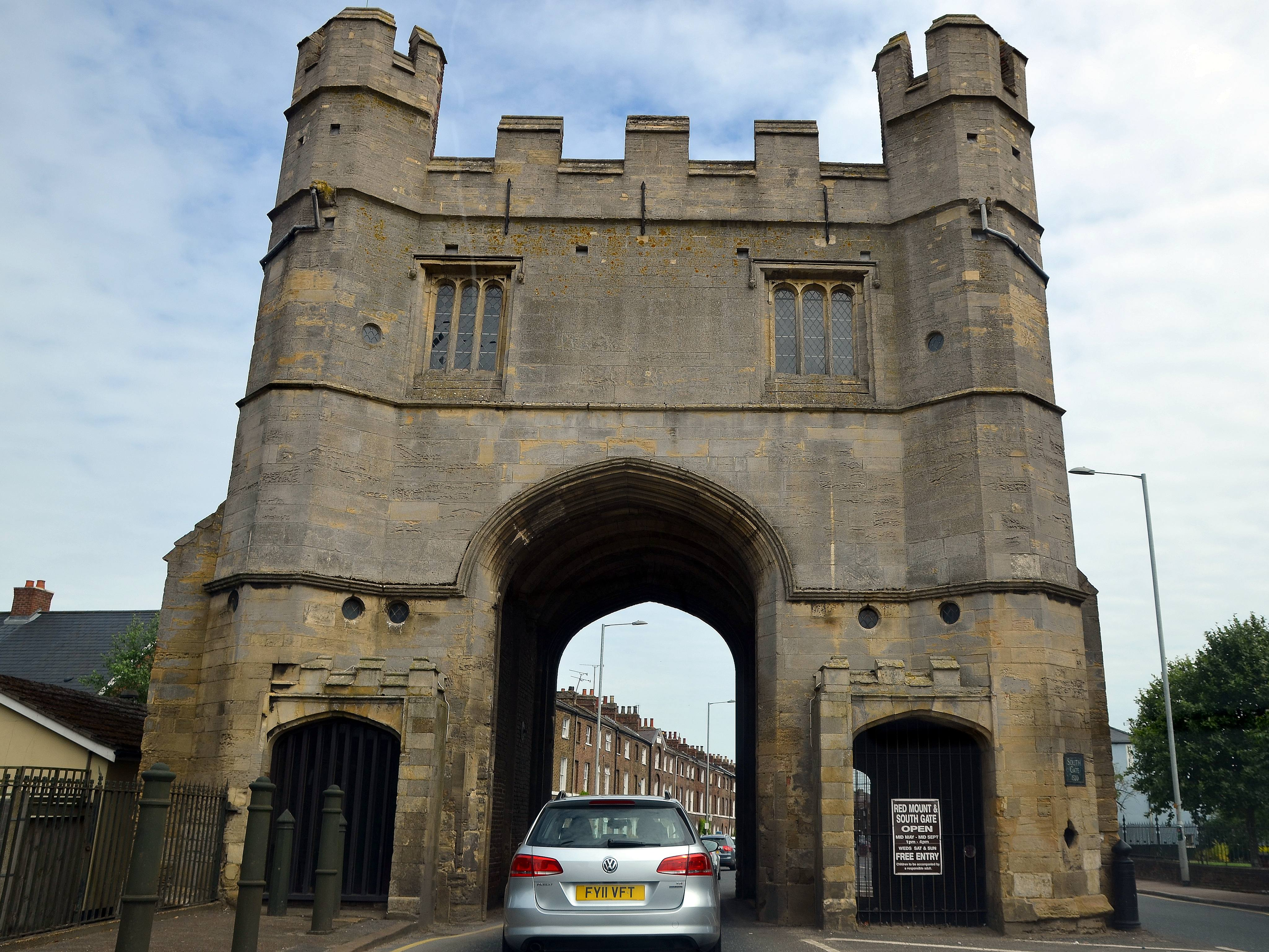 King's Lynn South Gate in July 2017.